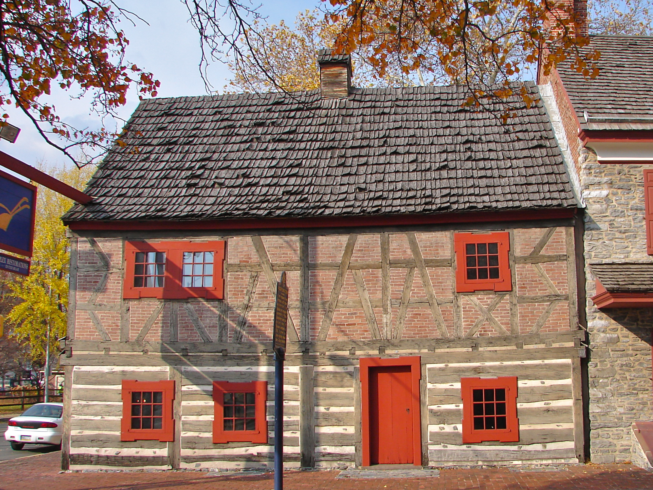 Golden Plough Tavern in York, Pennsylvania. Medieval construction technique (half-timbered on log base) dates to the pre-revolutionary period. Conway Cabal met here.